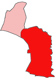 Map of Maryland County, Liberia showing Pleebo/Sodeken District; created with the GIMP. Made by User:Acntx.